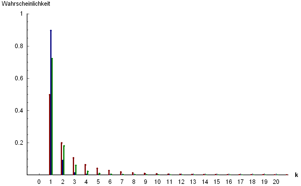 Log Series Distribution